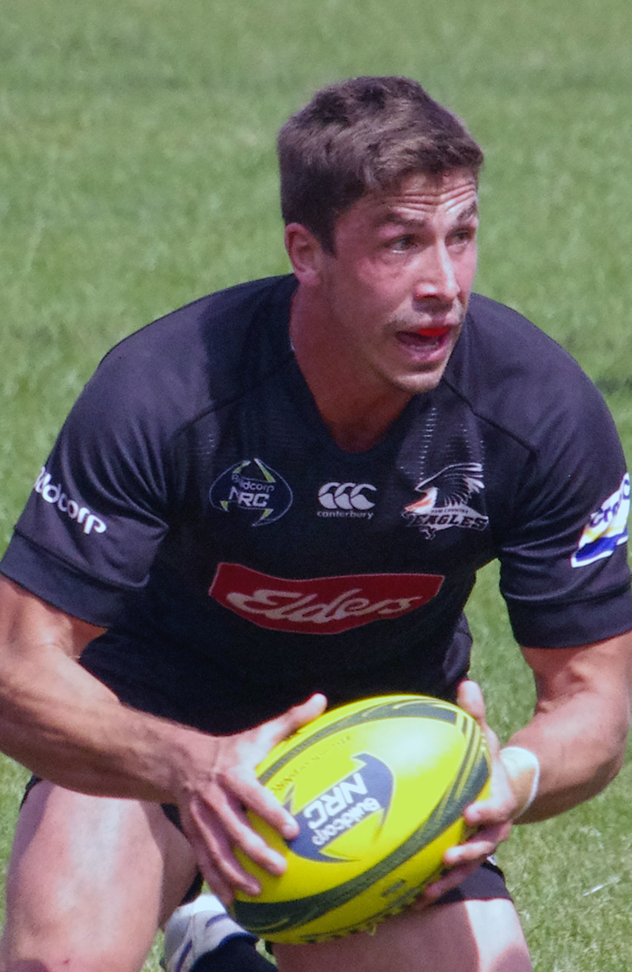 Jake Gordon with the New South Wales Country Eagles of the National Rugby Championship, 2016.